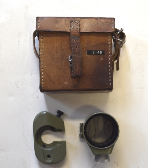 Optical wedge, from the University of Dundee Museum Collections.